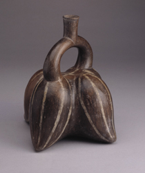 Moche Pepinos. Larco Museum Collection, Lima, Peru